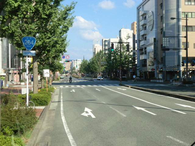 Japan National Route 264 in Kurume,Japan.